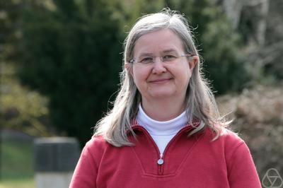 Picture of Irène Gijbels